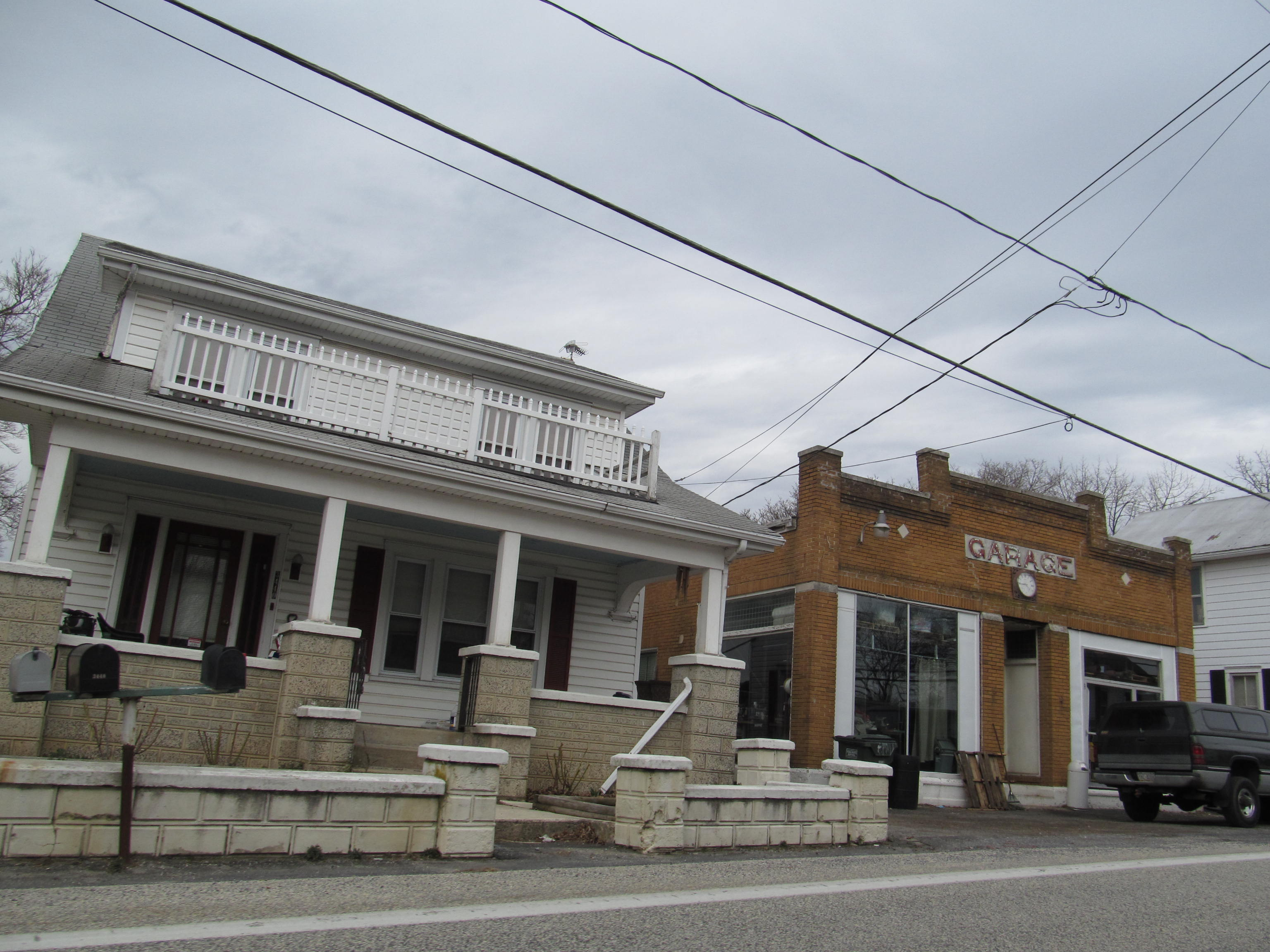 Carlisle Springs, Pennsylvania is in North Middleton Township